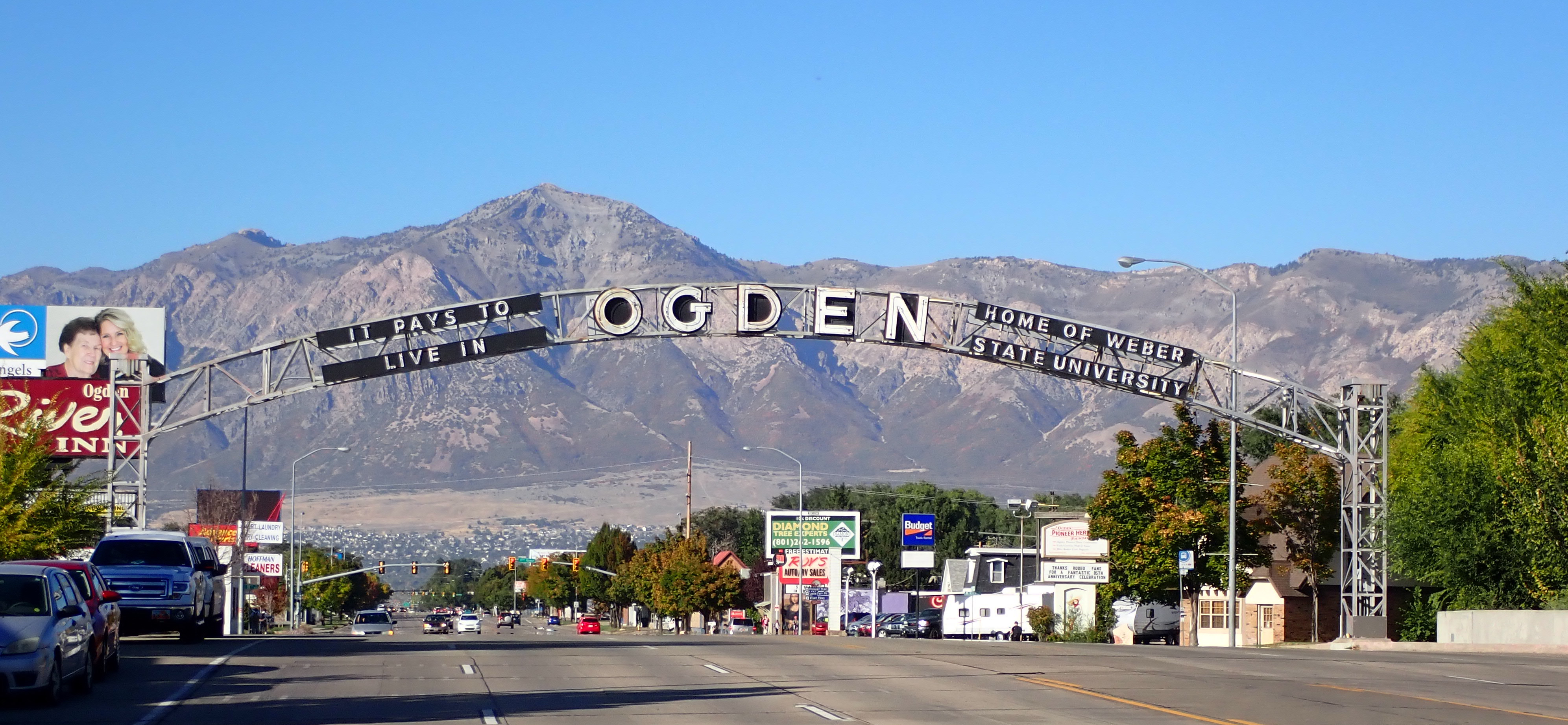 Ogden gantry sign and Ben Lomond, Utah, USA, 2019